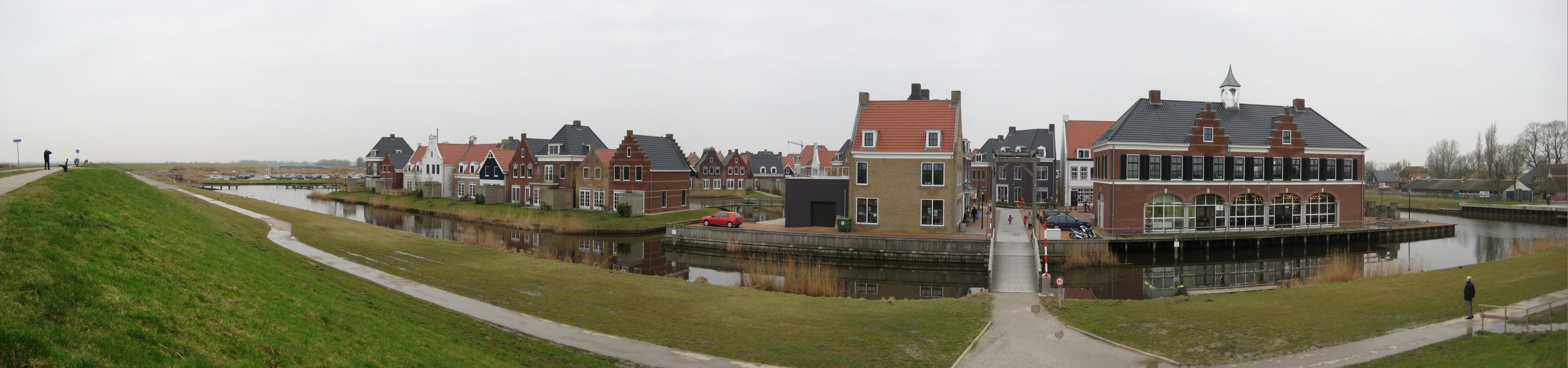 Esonstad, a recreational facility near Oostmahorn, a village in the Dutch province of Friesland